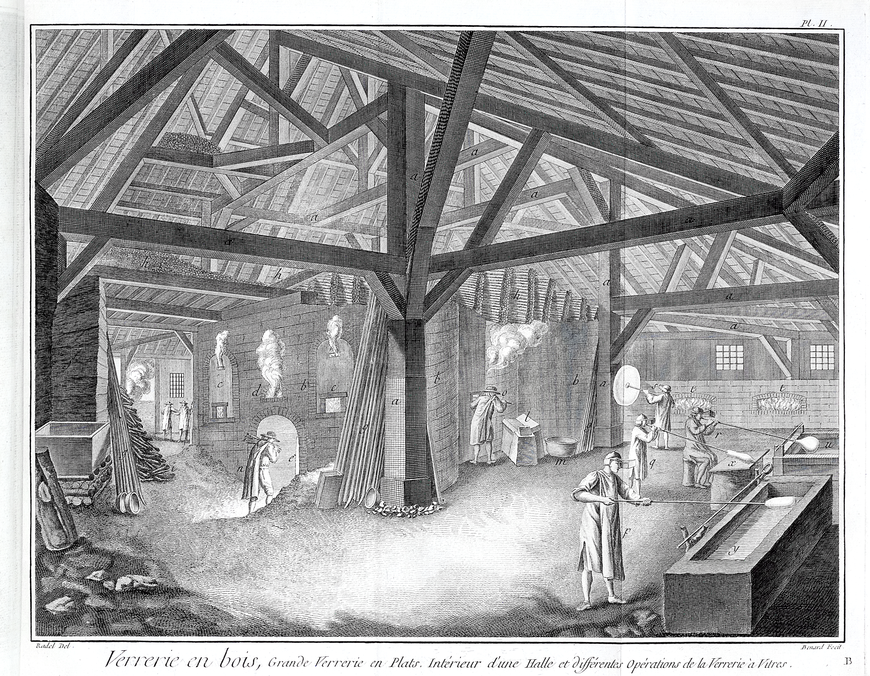 Diderot Encyclopedia: Making Crown Glass This is #5 of 6 engravings re-printed by the Corning Glass Center from originals in the Corning Museum of Glass, and released as "The Art of Glassmaking 1751-1772 / A Portfolio of Prints from the Diderot Encyclopedia". Verrerie en bois, Grande Verrerie en Plats. Intérieur d'une Halle et différentes Opérations de la Verrerie à Vitres. Wood-burning glasshouse, Large and flat glass. Interior of a hall and various operations of the glass work.